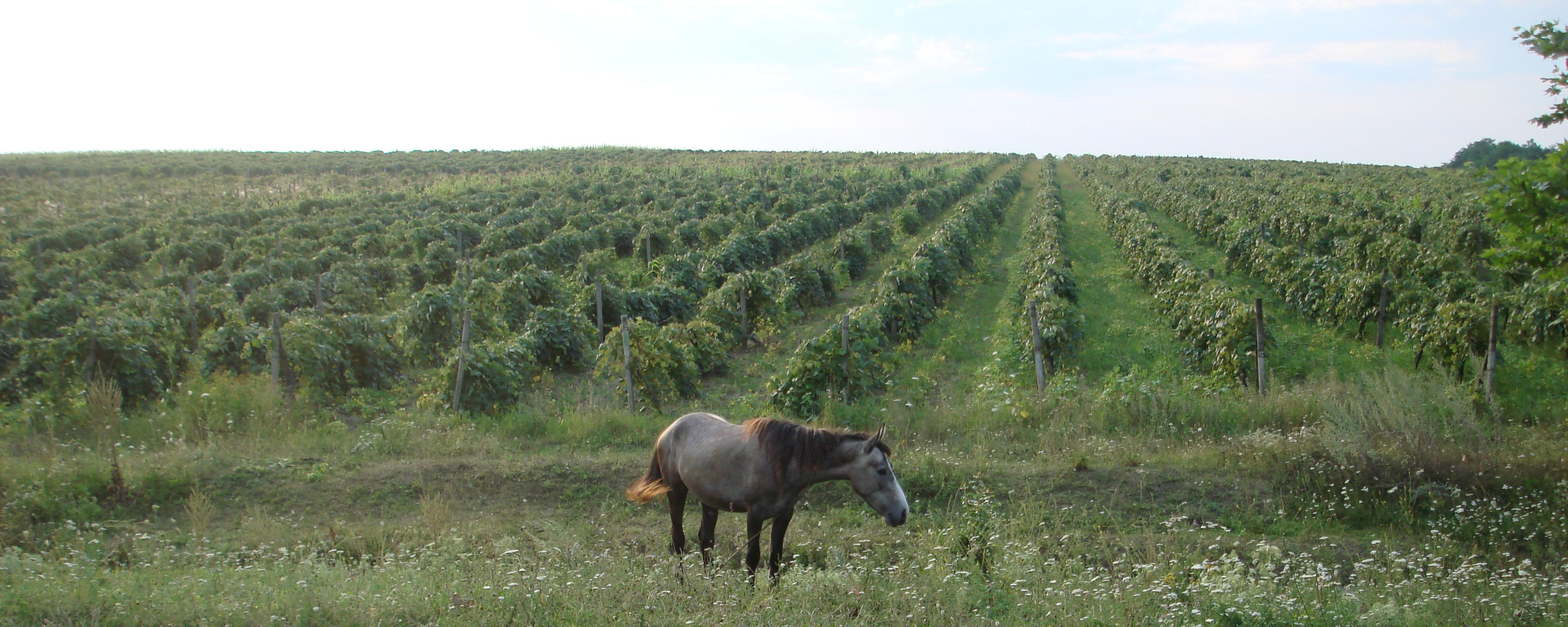 Horse near vineyard, raionul Străşeni, village Stejăreni, Moldova